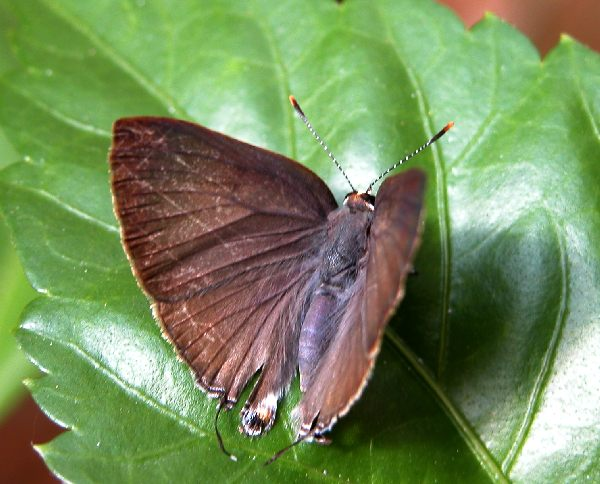 The Slate Flash, Rapala schistacea Upperside in Bangalore